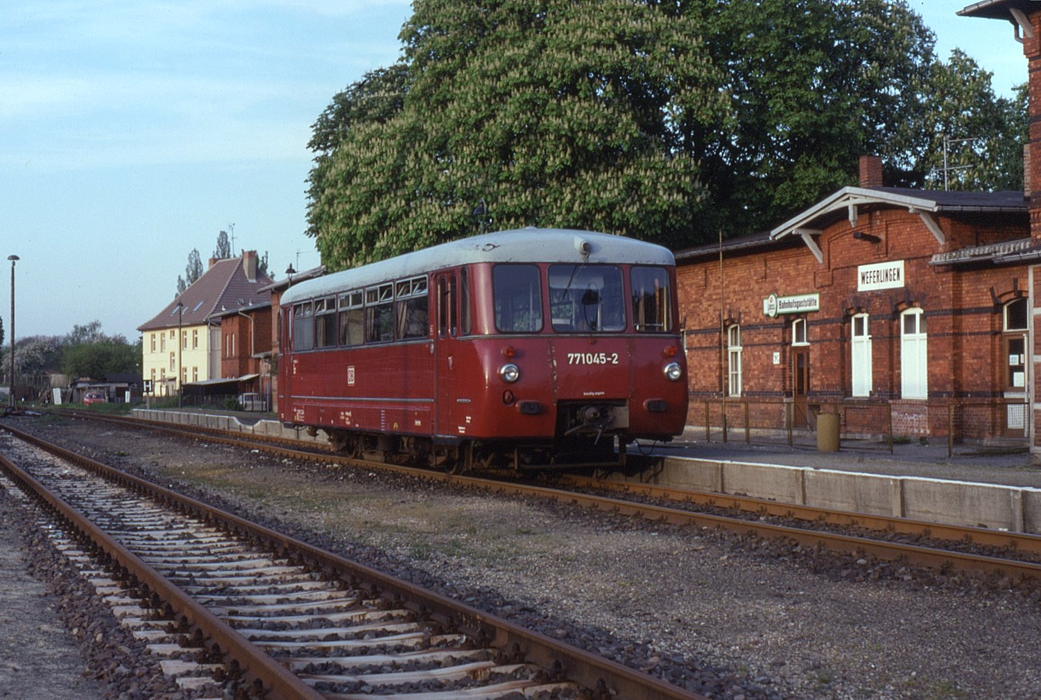 Taken on a warm spring evening, single railcar 771.045 sits at Weferlingen waiting to depart on train 6957, 20:11 Weferlingen to Haldensleben. Passenger services continued on for another 5 years after this visit, being withdrawn in May 1999.